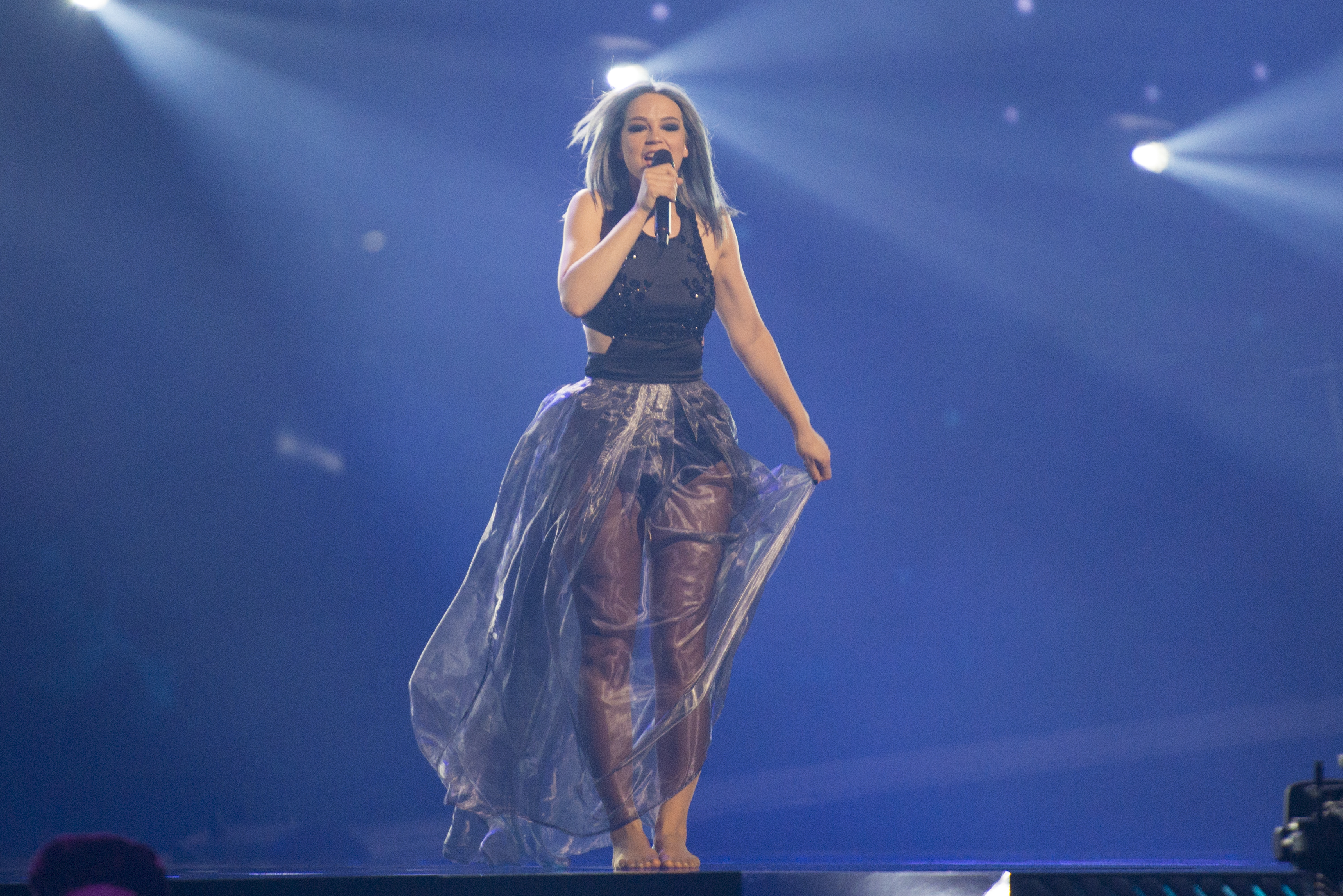 Rykka representing Switzerland with the song "The Last of Our Kind" during a rehearsal before the second semi final of the Eurovision Song Contest 2016 in Stockholm. (Help translate this text)